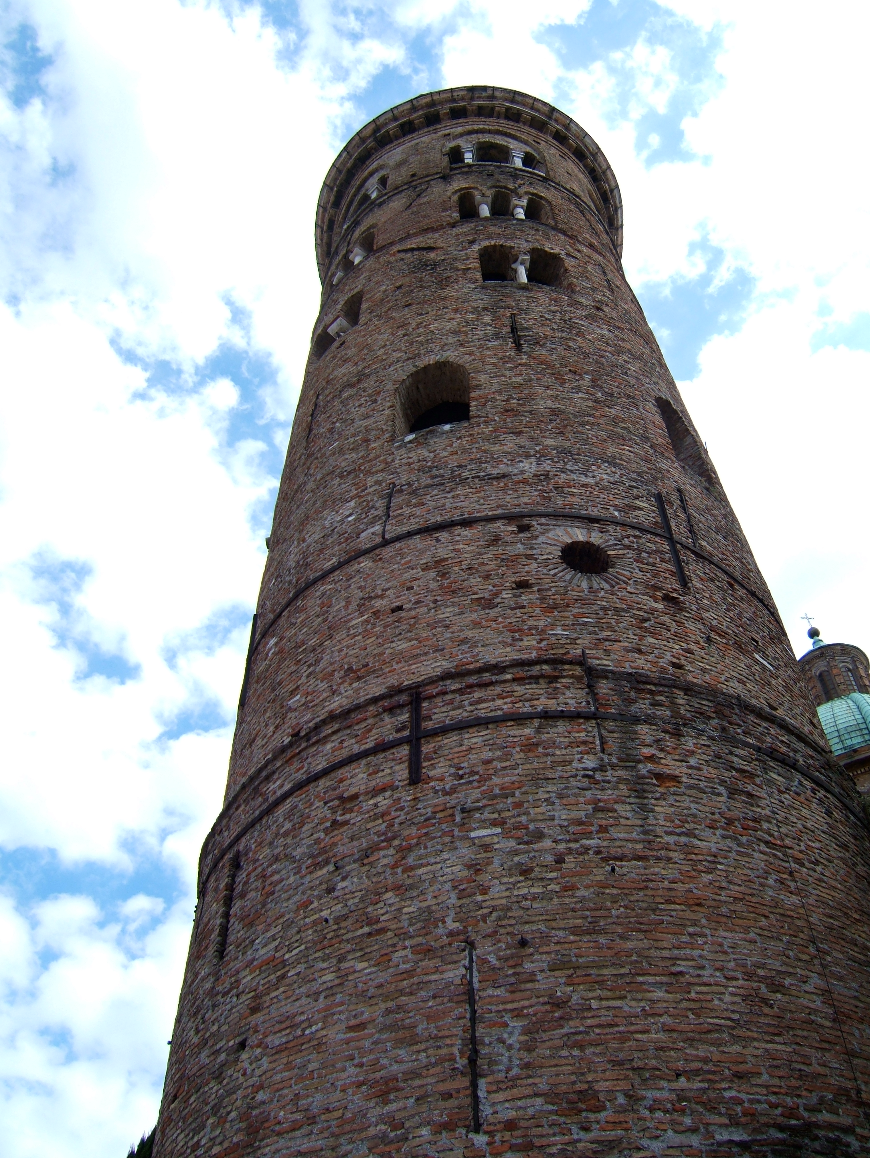 Tower of the cathedral in Ravenna, Italy